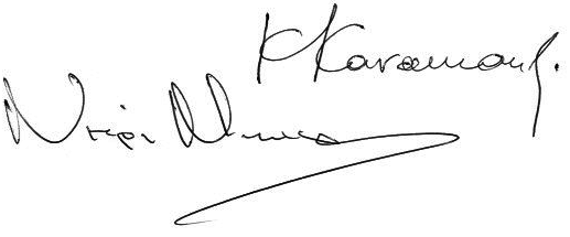 Lisbon Treaty - Final Act Signature by Greek representatives